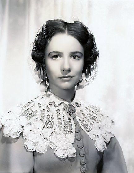 Studio publicity portrait of Alicia Rhett for film Gone With the Wind (1939). As stated by film production expert Eve Light Honthaner in The Complete Film Production Handbook, (Focal Press, 2001 p. 211.): "Publicity photos (star headshots) have traditionally not been copyrighted. Since they are disseminated to the public, they are generally considered public domain, and therefore clearance by the studio that produced them is not necessary." Nancy Wolff, includes a similar explanation: "There is a vast body of photographs, including but not limited to publicity stills, that have no notice as to who may have created them." (The Professional Photographer's Legal Handbook By Nancy E. Wolff, Allworth Communications, 2007, p. 55.) Film industry author Gerald Mast, in Film Study and the Copyright Law (1989) p. 87, writes: "According to the old copyright act, such production stills were not automatically copyrighted as part of the film and required separate copyrights as photographic stills. The new copyright act similarly excludes the production still from automatic copyright but gives the film's copyright owner a five-year period in which to copyright the stills. Most studios have never bothered to copyright these stills because they were happy to see them pass into the public domain, to be used by as many people in as many publications as possible." Kristin Thompson, committee chairperson of the for Cinema and Media Studies writes in the conclusion of a 1993 conference with cinema scholars and editors, that they "expressed the opinion that it is not necessary for authors to request permission to reproduce frame enlargements. . . [and] some trade presses that publish educational and scholarly film books also take the position that permission is not necessary for reproducing frame enlargements and publicity photographs."[1]